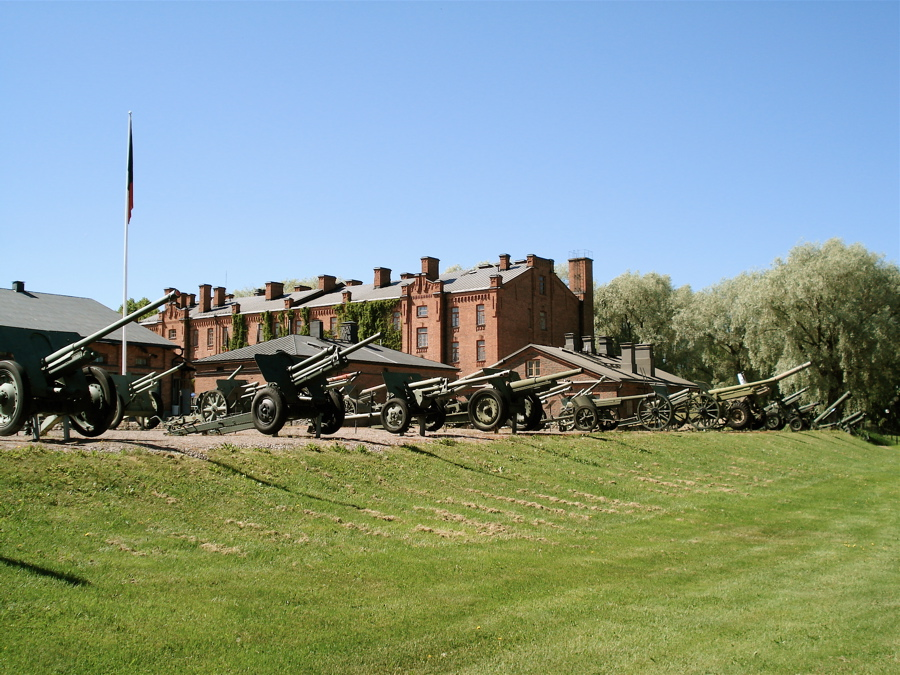 Finnish Artillery Museum in Hämeenlinna. View of the main building and the gun park exhibit. Photo taken on June 18, 2006. Source: Photo by me, User:Balcer.